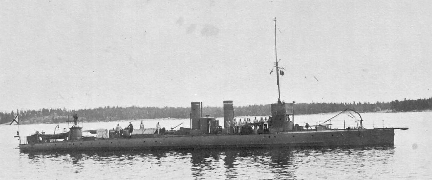 Imperial Russian torpedo boat No. 214.